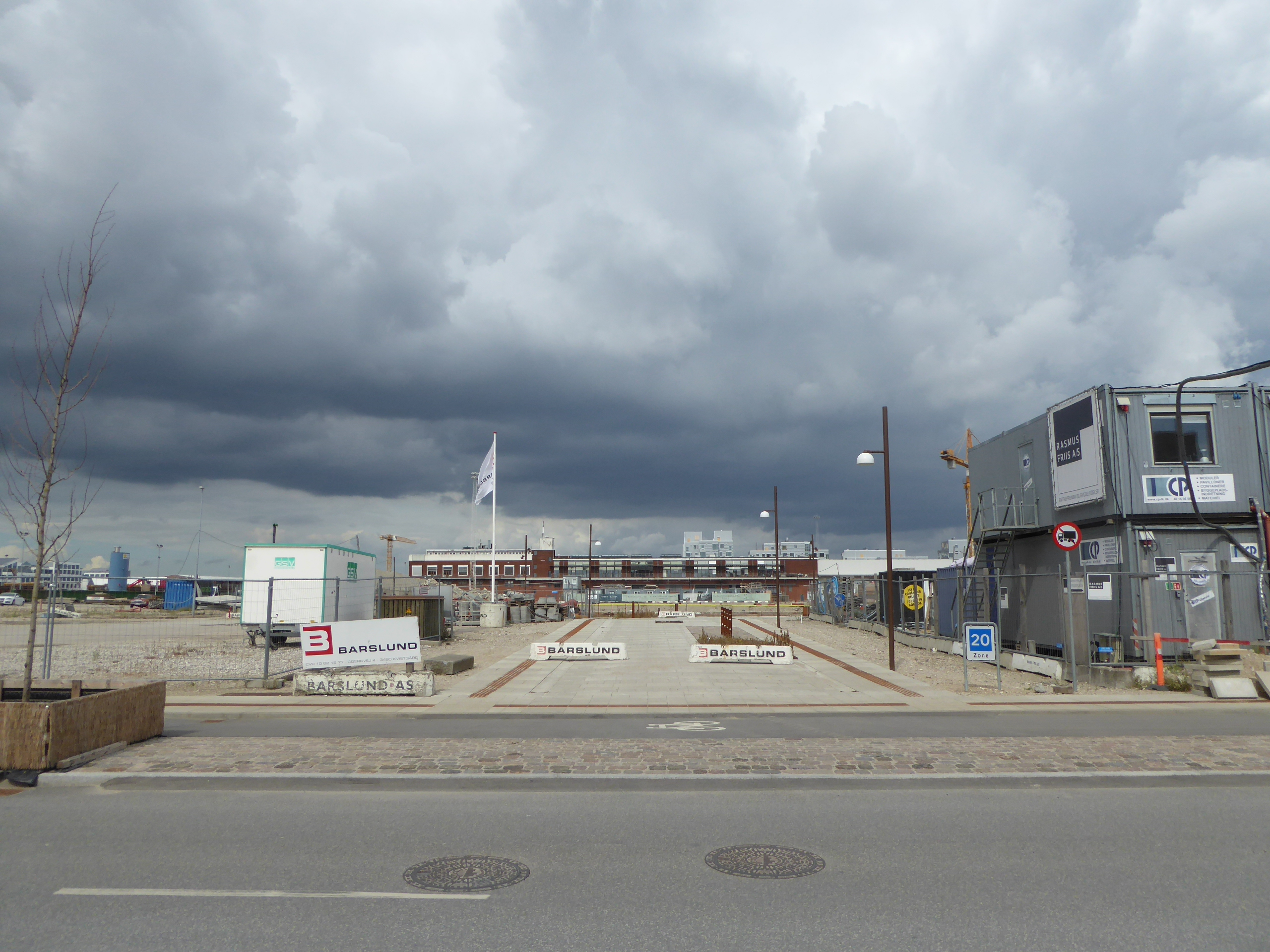 The street Calaisgade at Helsinkigade in Nordhavn in Copenhagen.